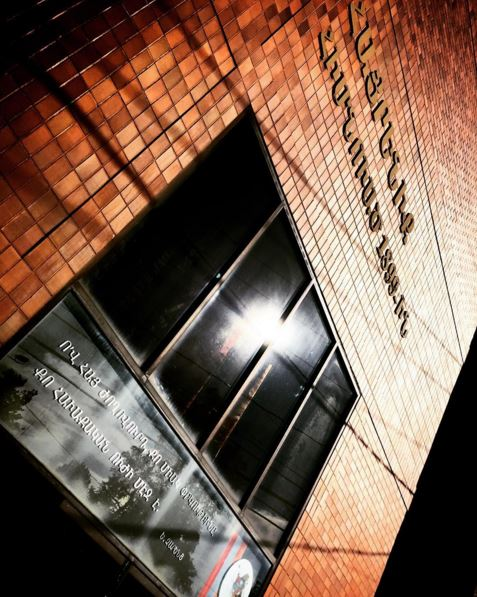 Hairenik Association building - Watertown, Mass. (Photo: Rupen Janbazian)